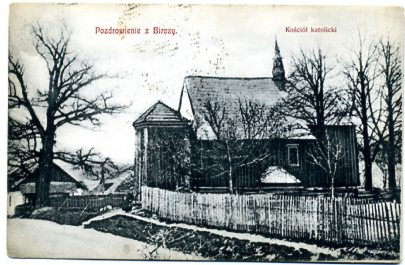 Old church in Bircza. Postcard about 1900.